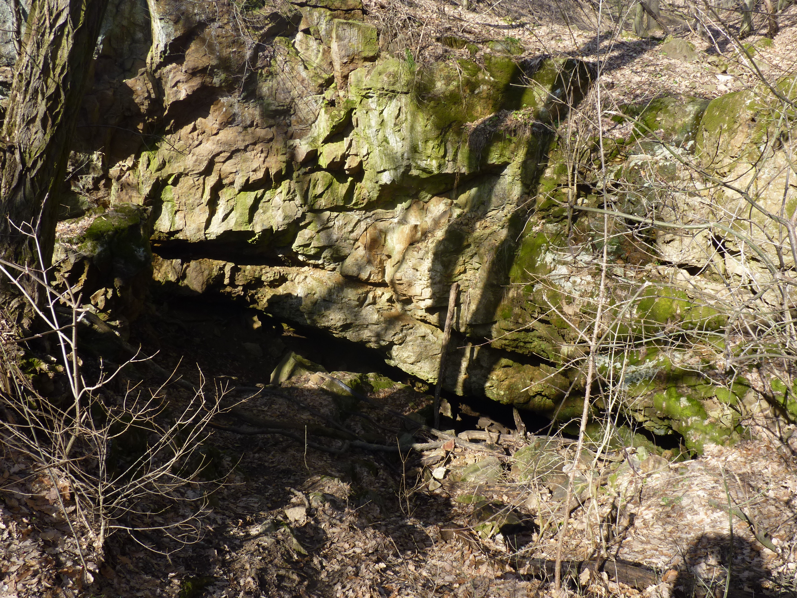 Macska Cave entrance